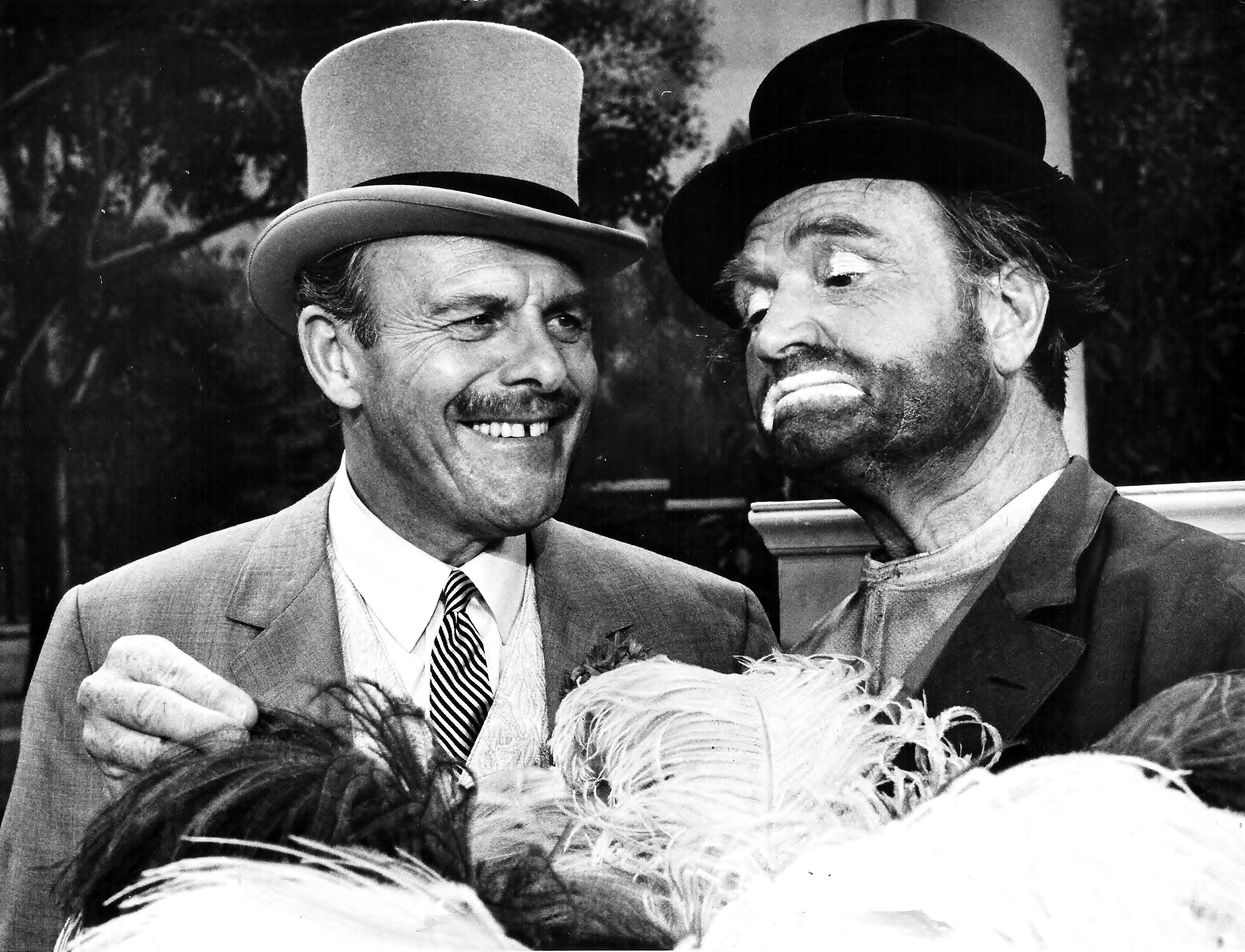 Comedians Terry-Thomas and Red Skelton in The Red Skelton Show, 1967